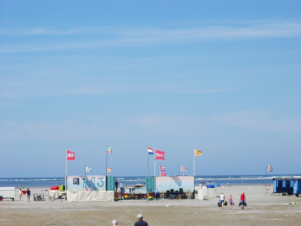 Beach on Schiermonnikoog.